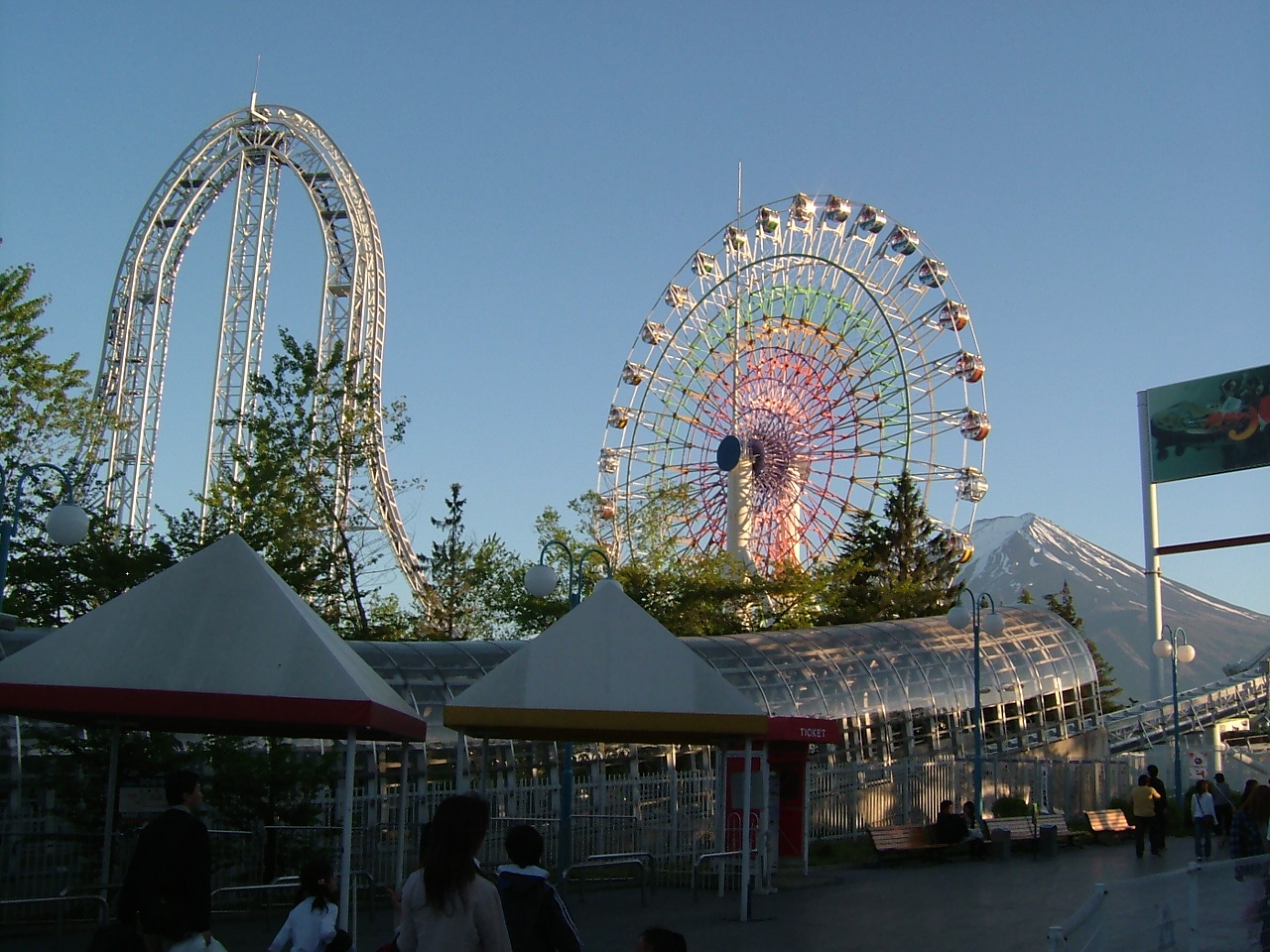 This is the Dodonpa rollercoaster, with Mount Fuji in the background, at the Fuji-Q Highland amusement park in Japan.